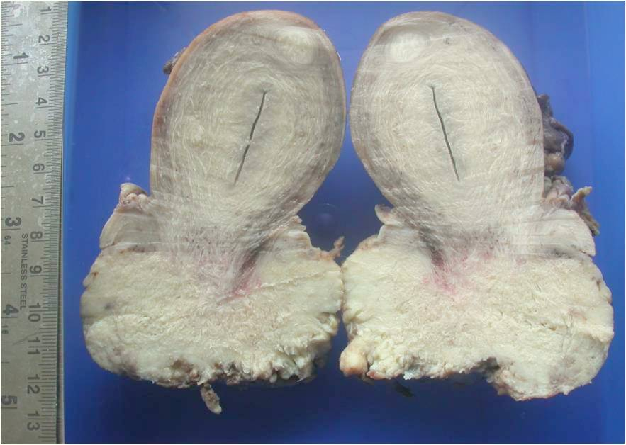 Cut section of uterus showing a large ulcerated neoplasm of cervix replacing it completely.